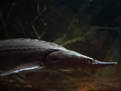 A close-up of a sturgeon (Acipenser).